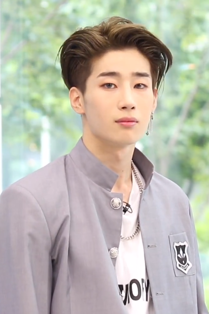 180529 tbs Fact in Star - VICTON